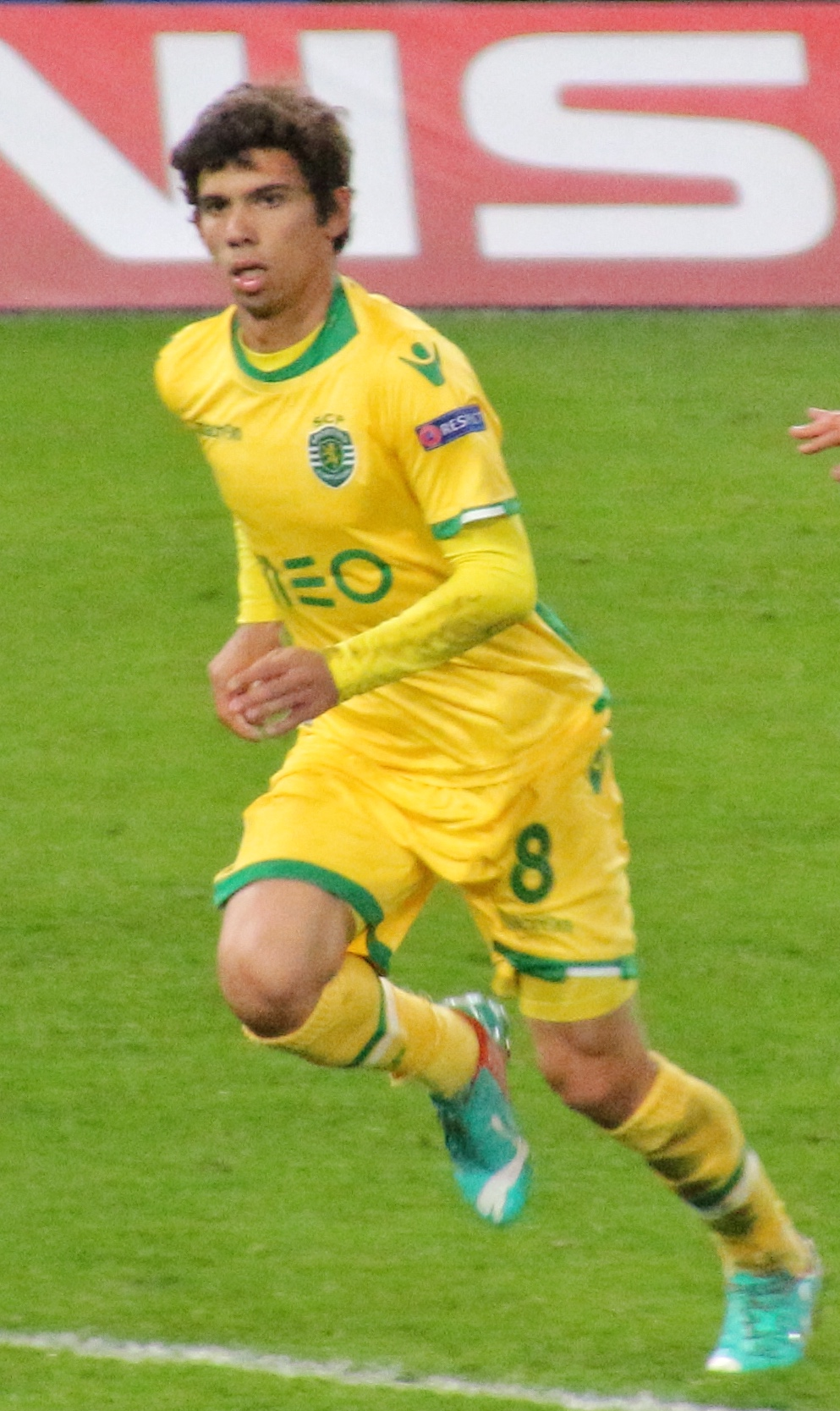 Chelsea 3 Sporting Lisbon 1